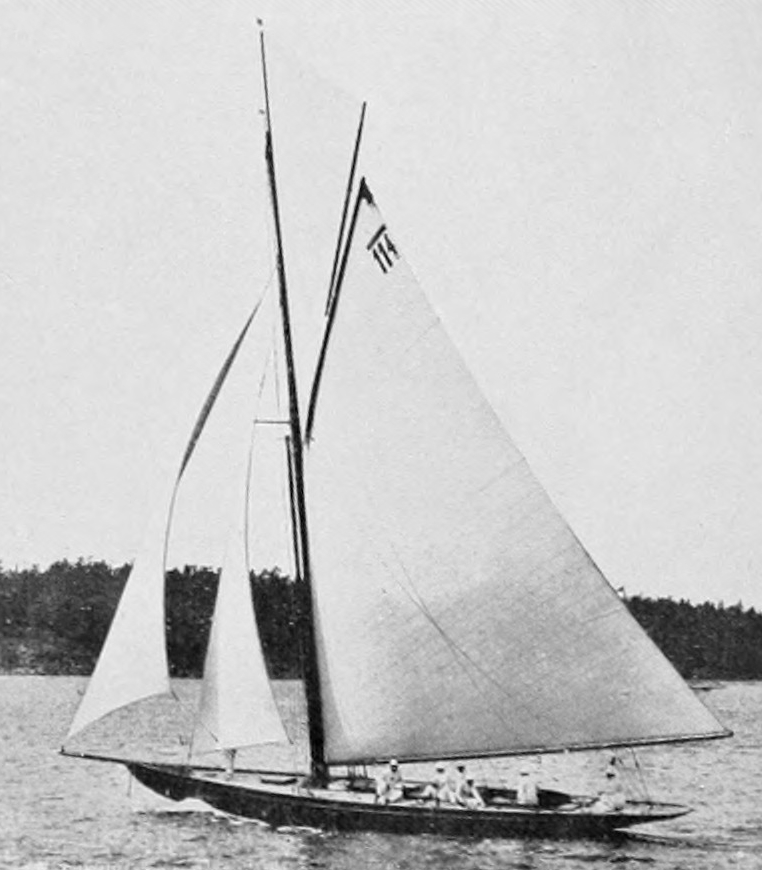 Swedish 10 m class s/y Kitty. Gold medalist 1912 olympics